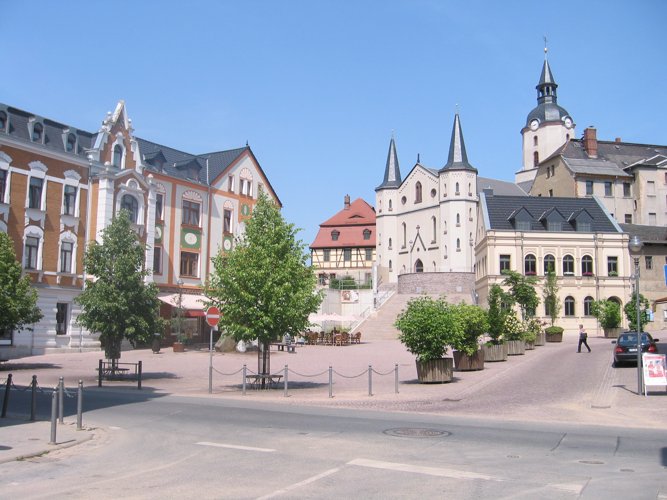 Teichplatz with "Italian Stairs" and Church St.Martin